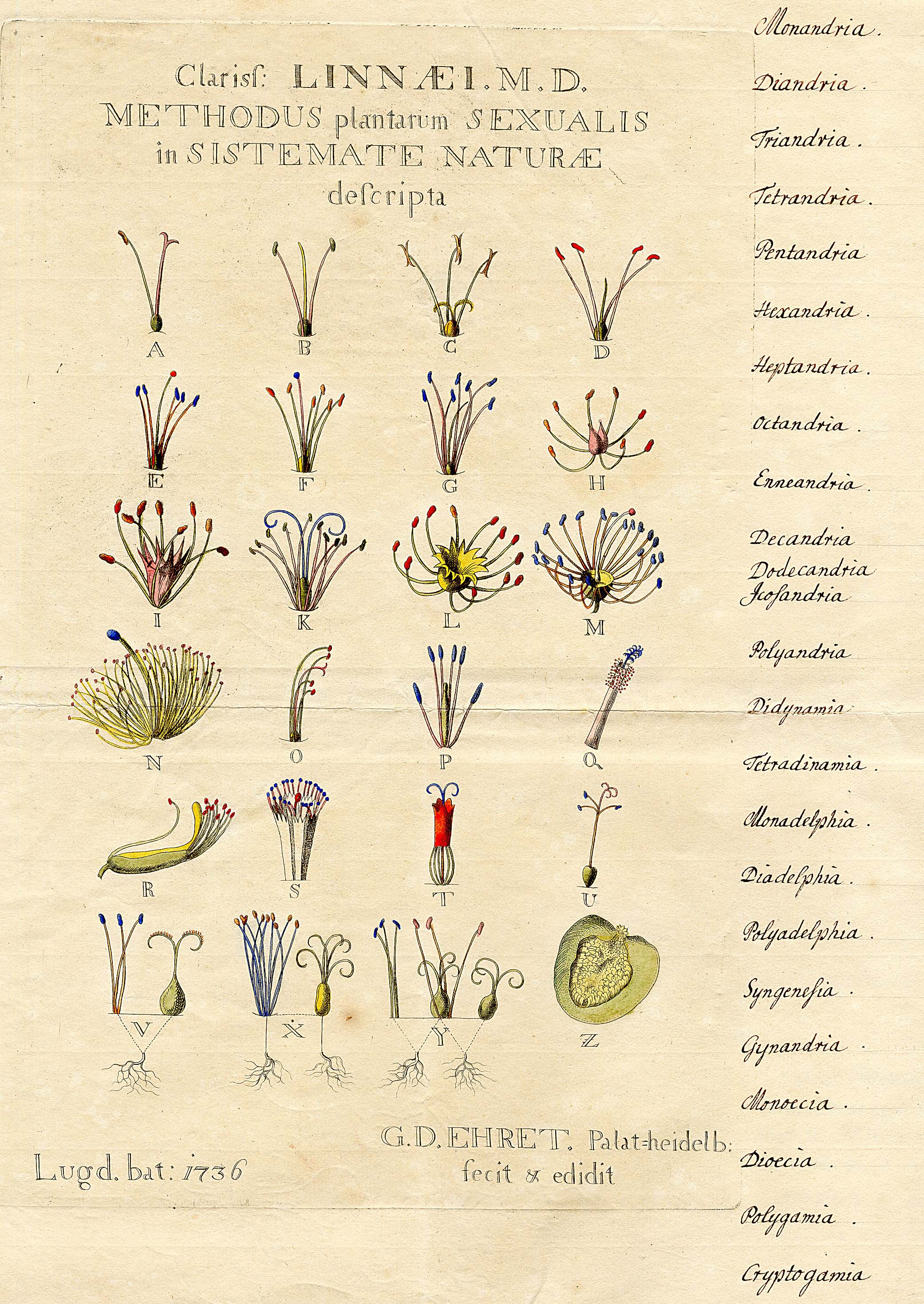 The signboard “Methodus Plantarum Sexualis in sistemate naturae descripta” (Leiden 1736) images according to Linnés sexual systems 24 classes. Georg Dionysius Ehret, has possibly alone wrote the bunch names in the right edge, and applied the color.